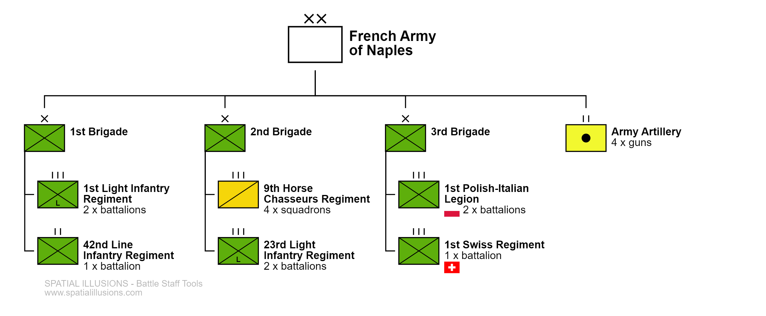 French Army Order of Battle (Battle of Maida)